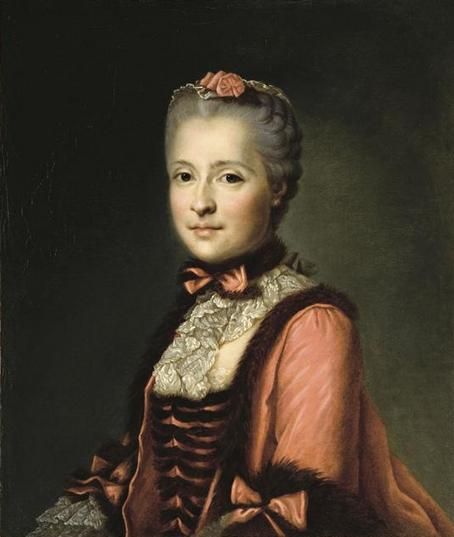 Marie-Josèphe de Saxe (1731-1767), mère de Louis XVI